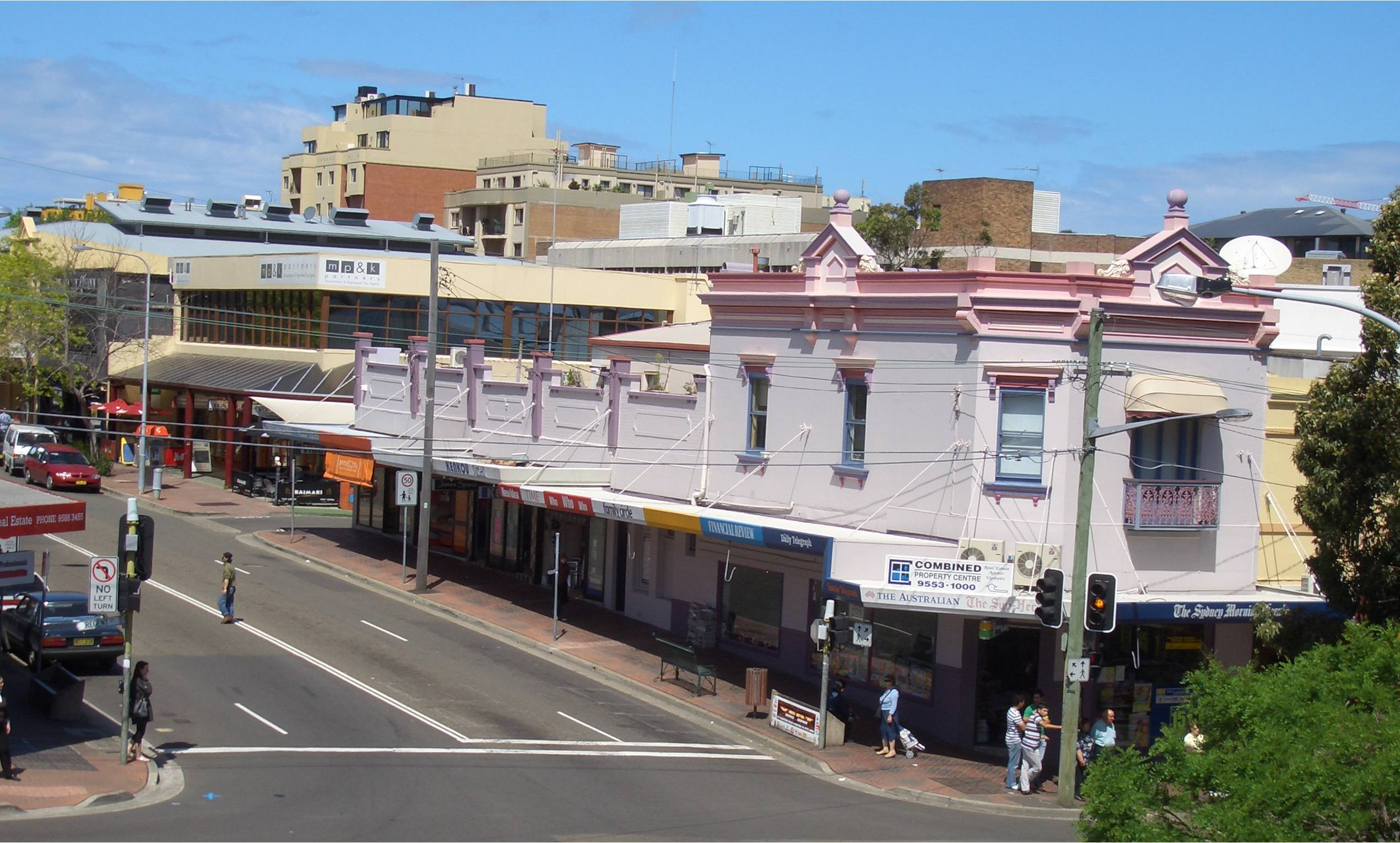 Montgomery Street, Kogarah